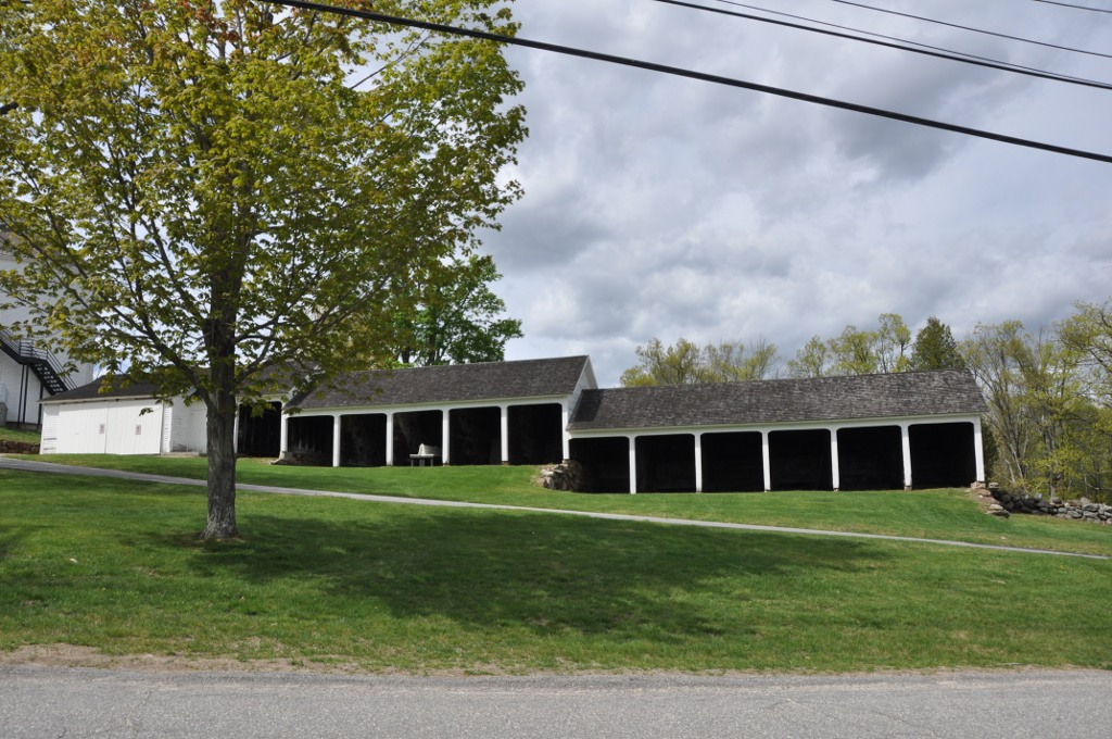 The historic horse sheds of Rindge, New Hampshire.